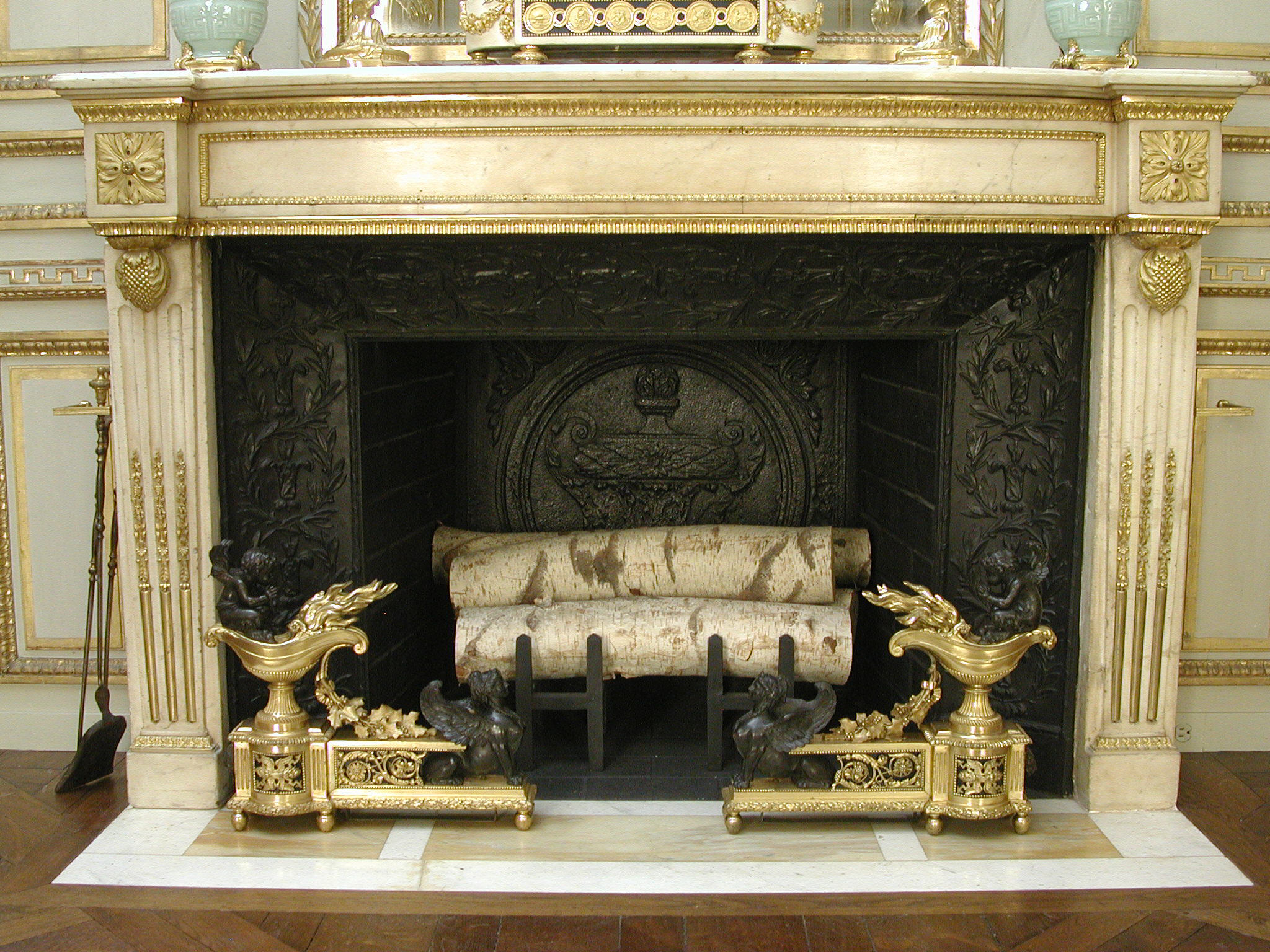 French, Paris; Chimneypiece; Sculpture-Architectural